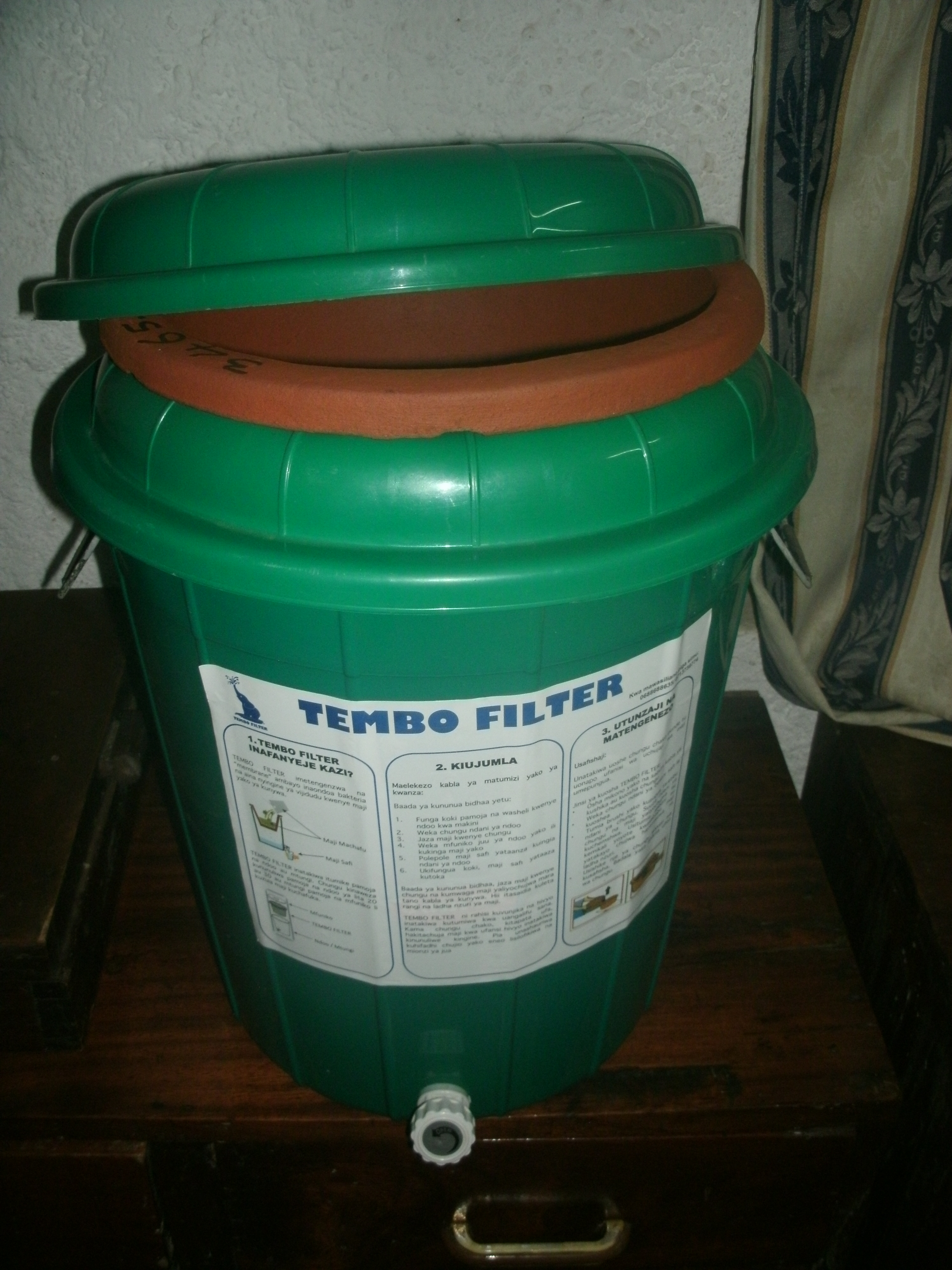 This is an image of a ceramic water filter manufactured by MSABI.